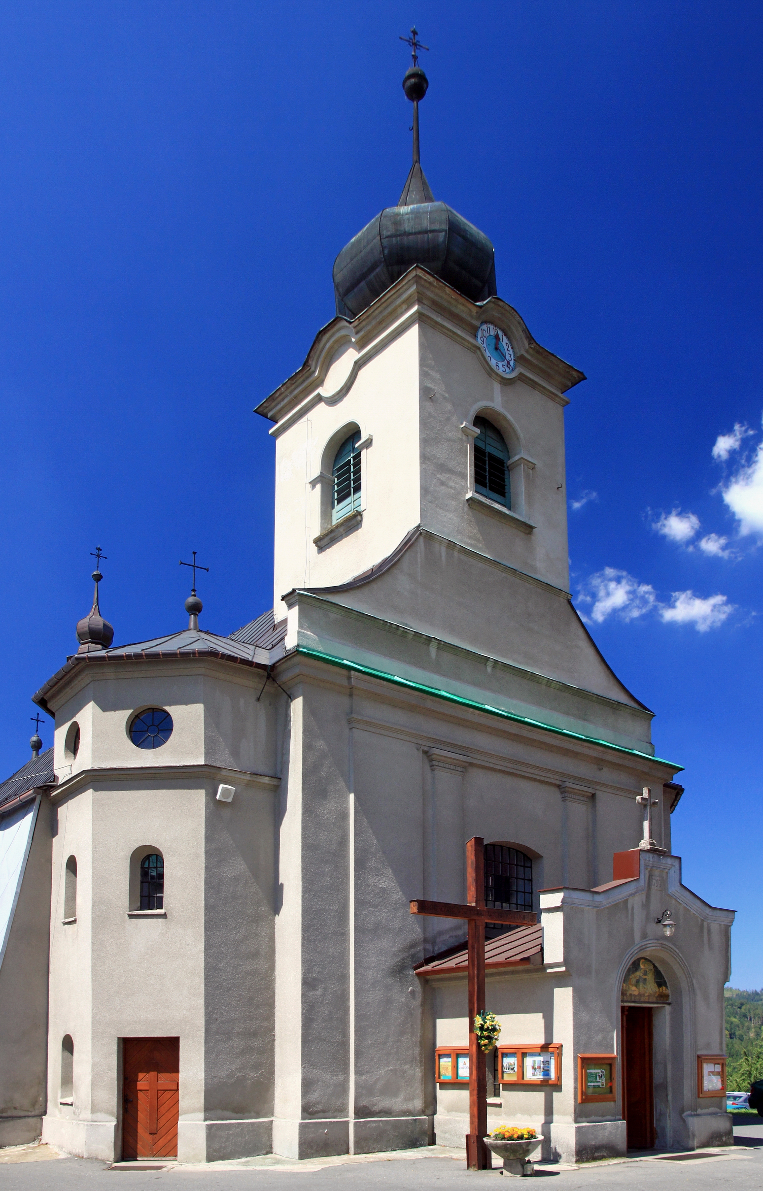 Istebna, Good Shepherd parish church, build in 1792-1794, 1928-1929